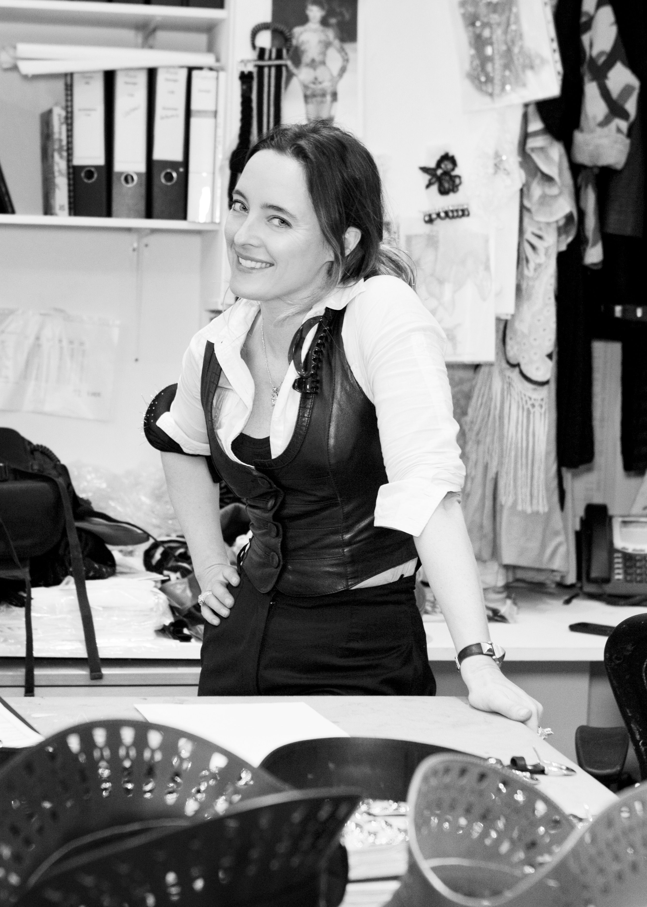 Alice Temperley in studio